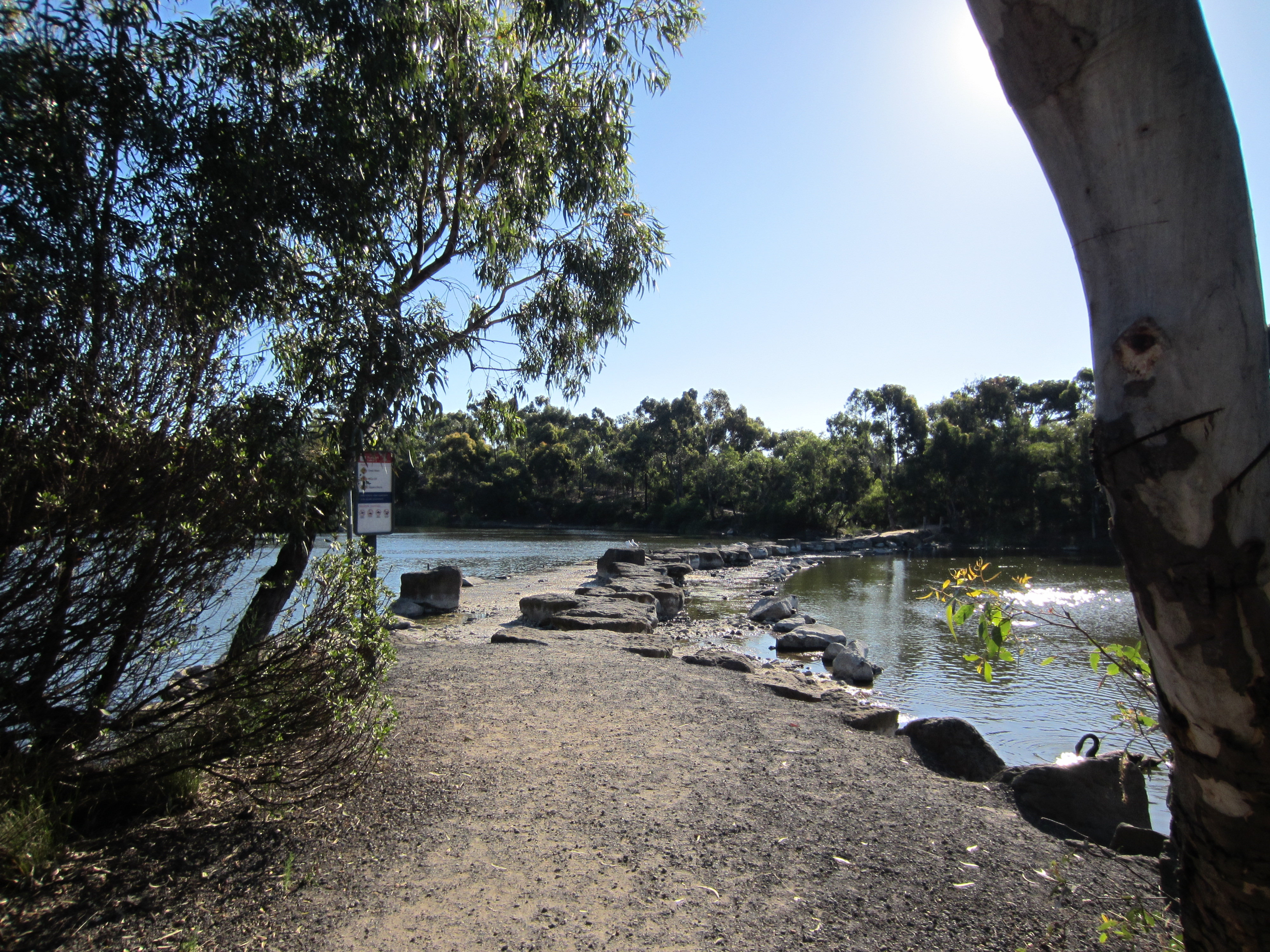 Newport Lakes, stepping stones, Victoria